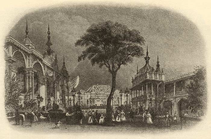 1830 The Eagle Tavern, in Hoxton/Islington